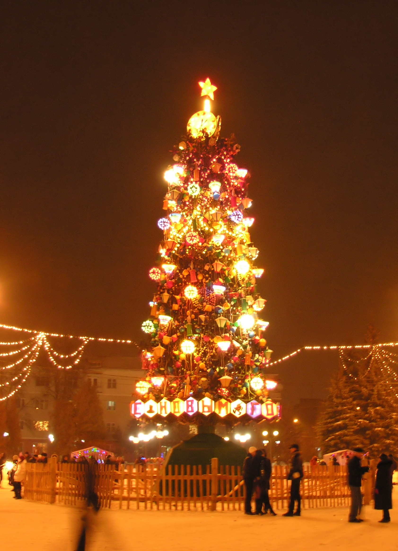 Novomoskovsk Christmas tree